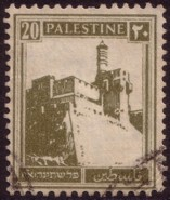 tower of David on British mandate stamp Citadel with Tower of David, Jerusalem (SG: T11, Bale: Type 12, Michel: e) (5, 6, 7, 20m)